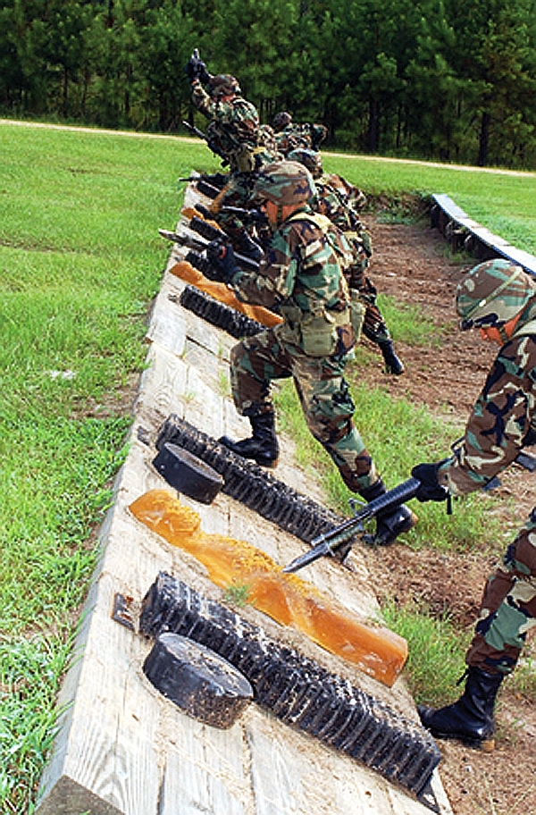 U.S. Army soldiers of the C Company, 3rd Battalion, 47th Infantry Regiment learn about infantry tactics while attacking the bayonet assault course on Sand Hill. Each platoon was divided into eight-man teams and appointed team leaders who led their peers through the obstacle course.